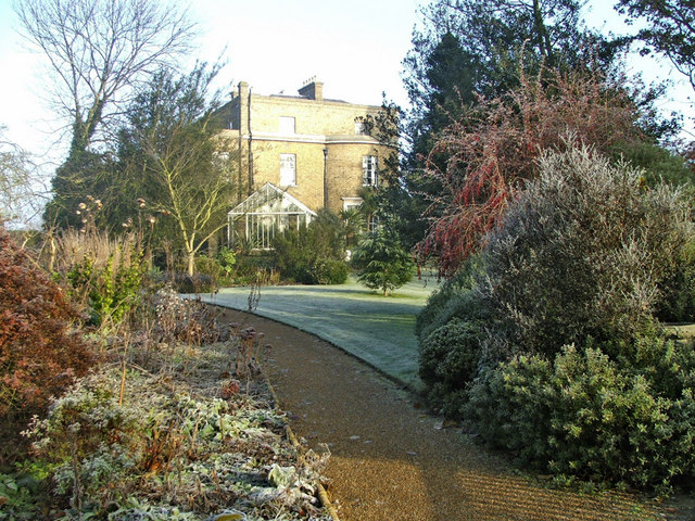 Myddleton House and Garden, Bulls Cross, Enfield